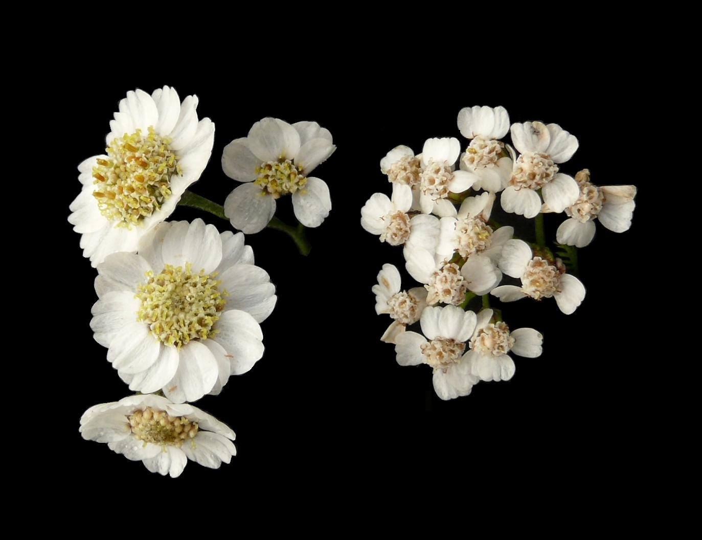 left/links: Achillea ptarmicaright/rechts: Achillea millefoliumHohenloher Ebene, Germany